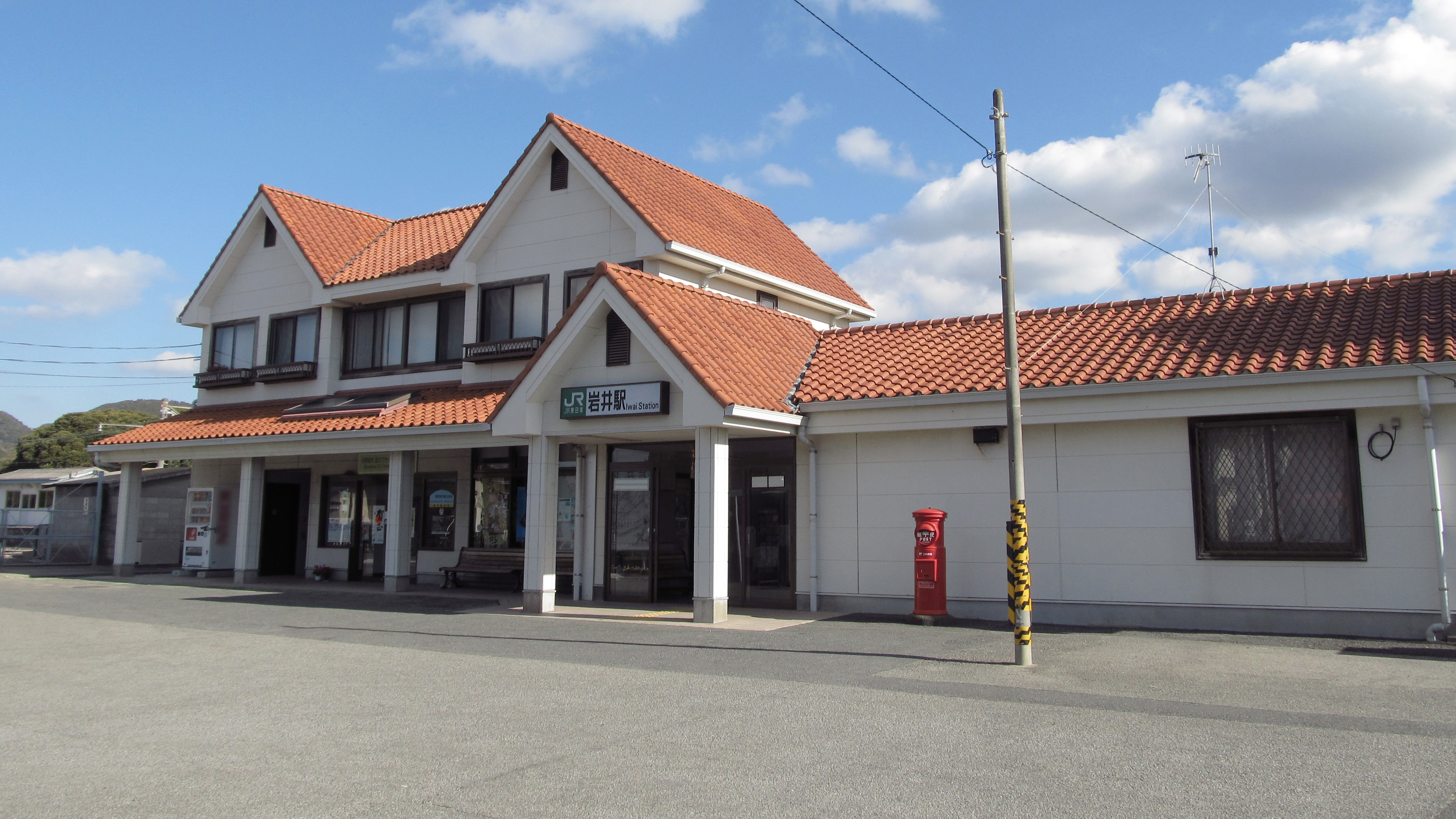 The building of Iwai Station on the Uchibō Line in Minamibōsō city, Chiba prefecture, Japan